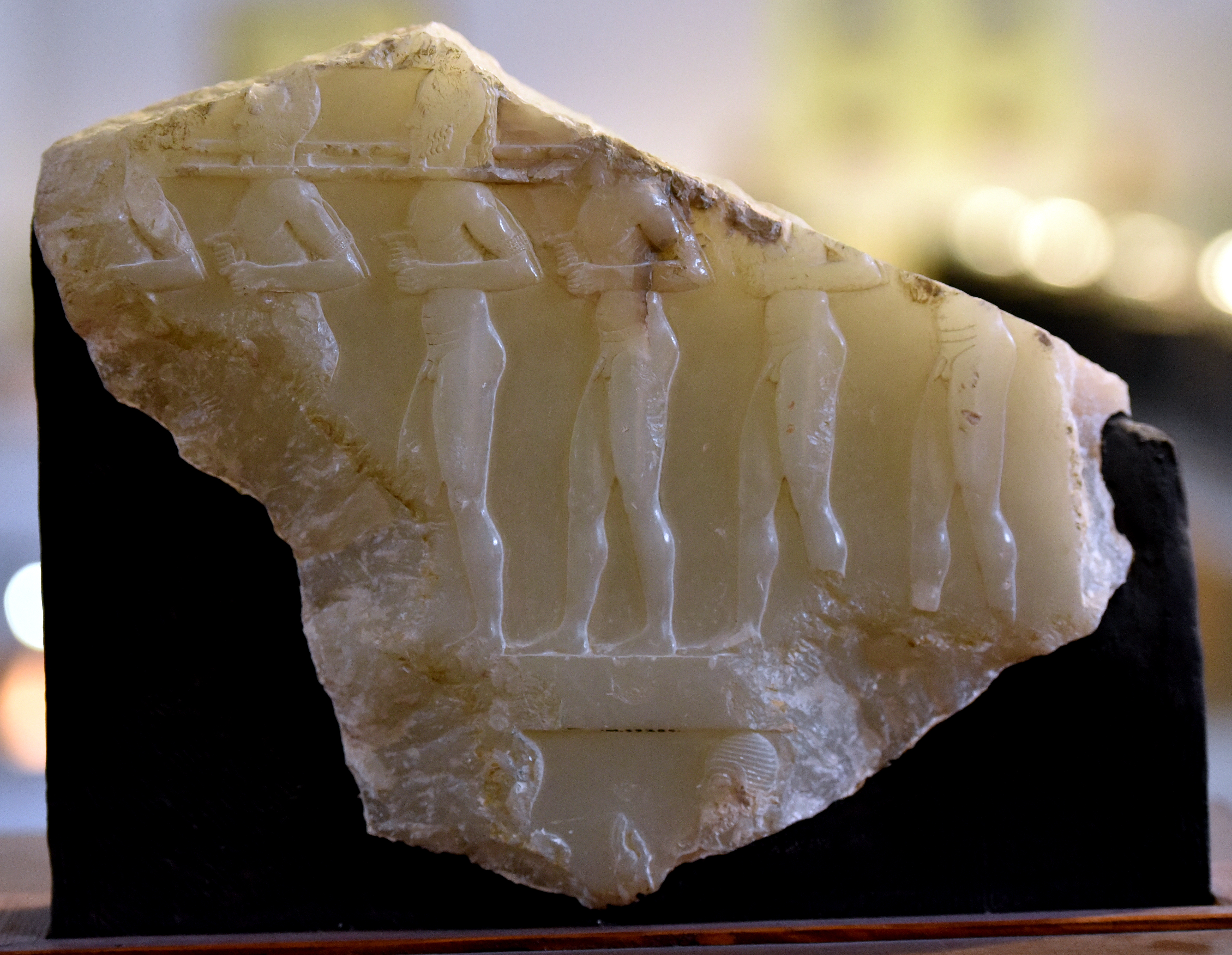 The so-called "Nasiriyah Victory Stele of Naram Sin". From southern Mesopotamia, Iraq. It's one of 2 fragments in the Iraq Museum in Baghdad; the 3rd fragment is in Boston, USA. From Nasiriyah, Iraq. Akkadian period, c. 2300 BCE. TOn display at the Iraq Museum in Baghdad, Republic of Iraq.